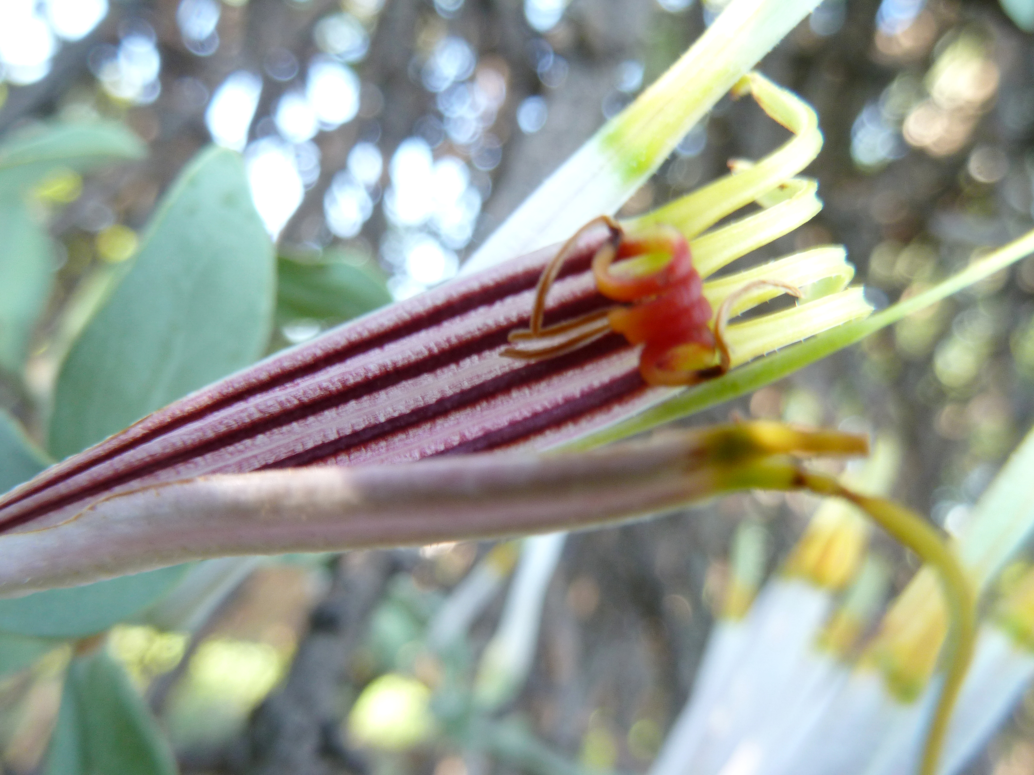 Open flower of the Natal mistletoe, growing on Acacia caffra, at Seringveld near Pretoria. The inconspicuous green style on right.